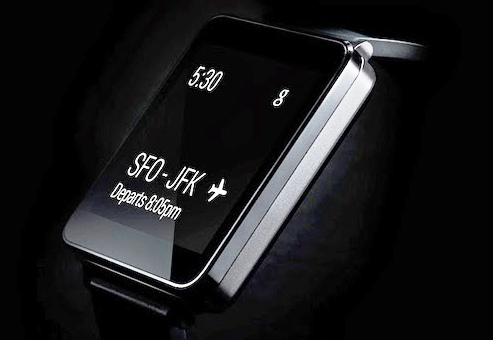 A smartwatch by LG Electronics with Android Wear.